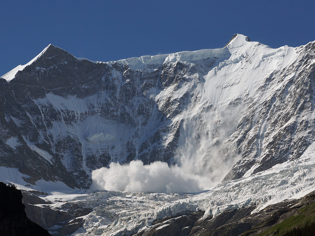 A snow cornice broke near Gross Fiescherhorn (4049m) and an avalanche went down the 1600m high wall.